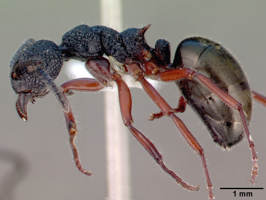 Profile view of ant Dolichoderus scabridus specimen casent0010672.